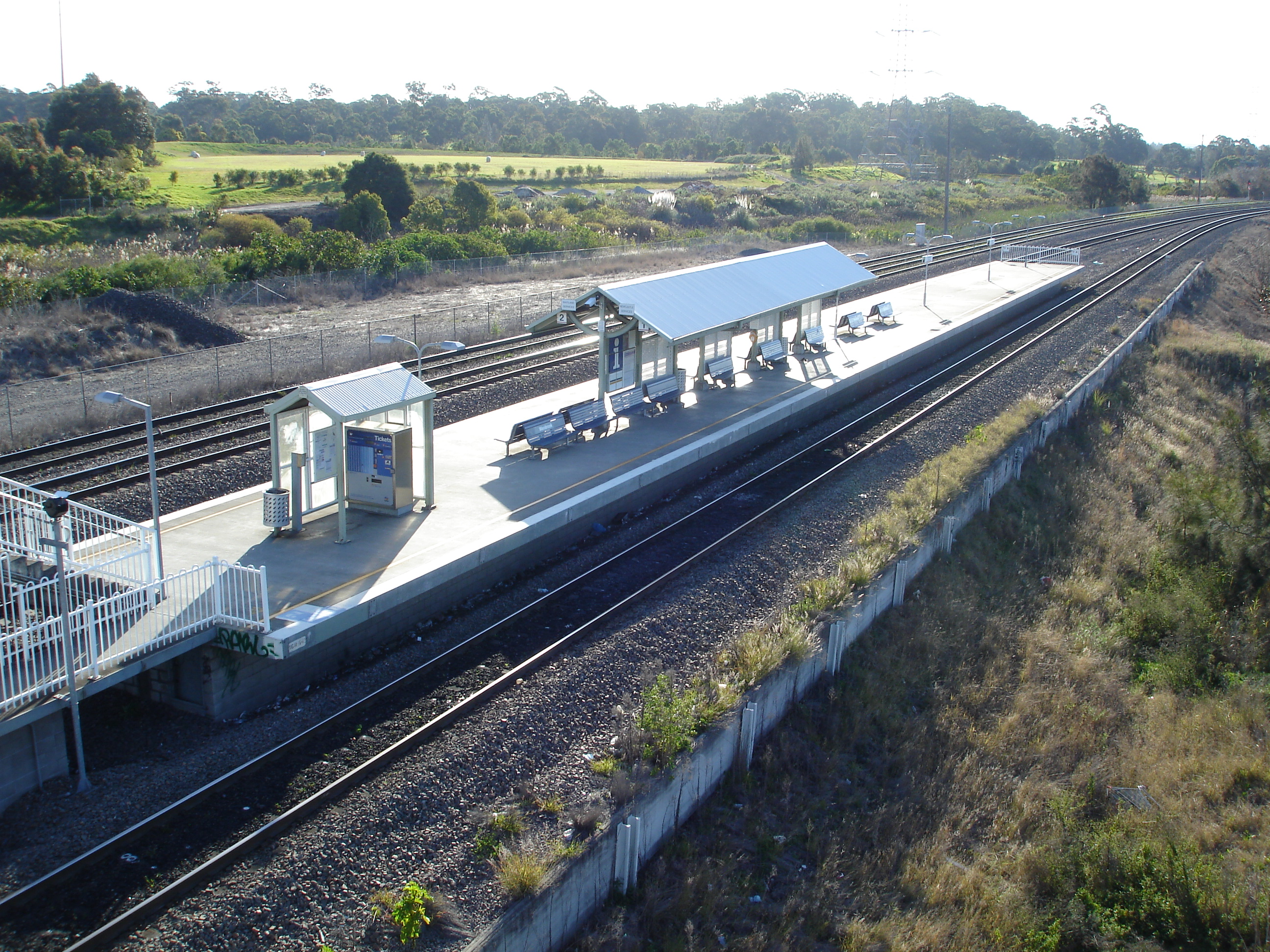 Warabrook station taken by MrTwig